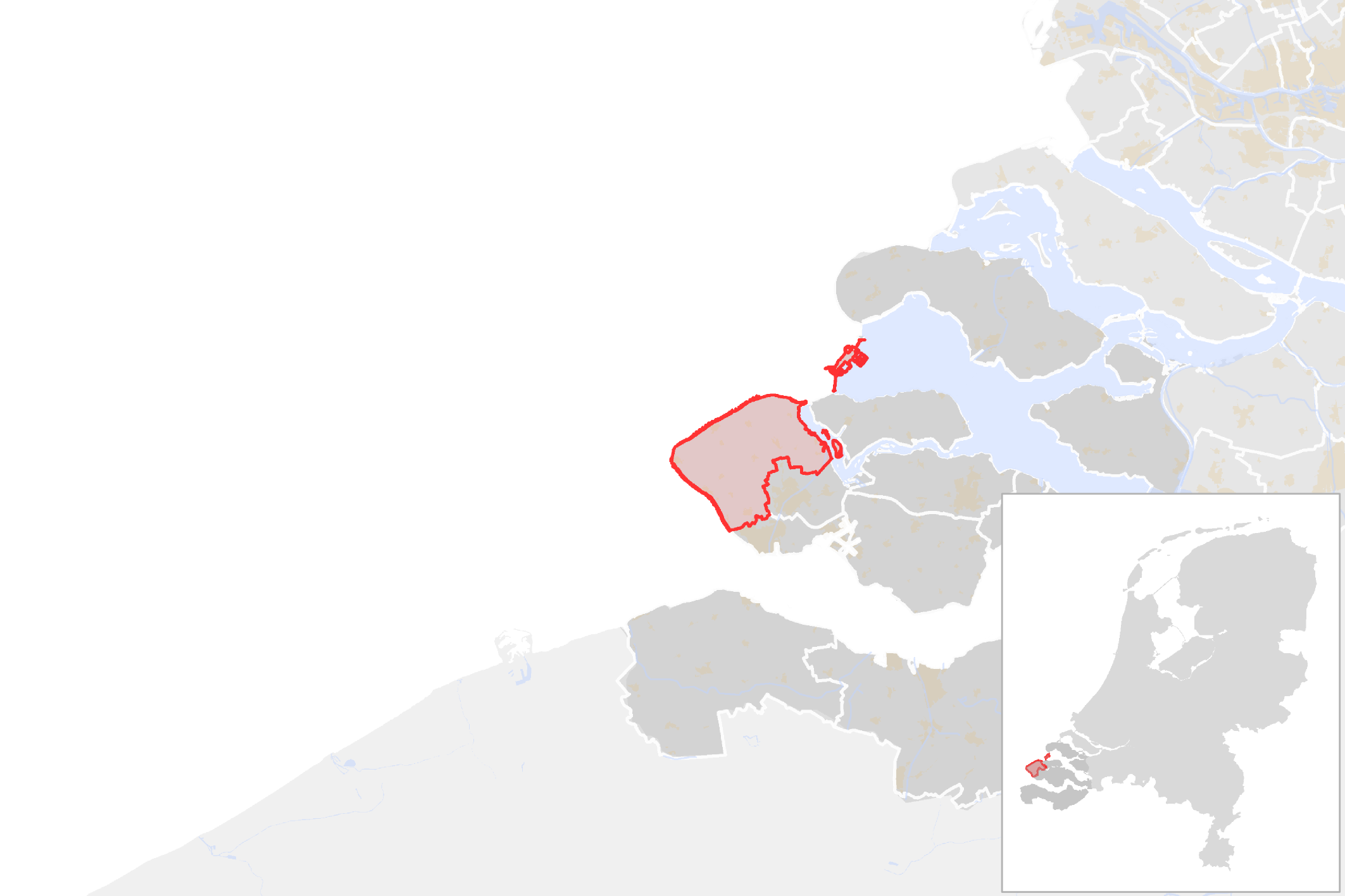 Locator map showing municipality boundary of one of the 390 Dutch municipalities (as of 2016)